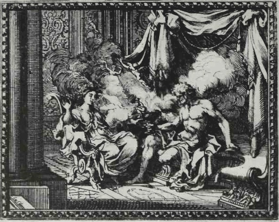 Pandora seated with her husband Epimetheus, who has just opened her jar of curses; an illustration by Sébastien Le Clerc to Isaac de Benserade's Les Métamorphoses d'Ovide en rondeaux (Paris: Imprimerie Royale, 1676)